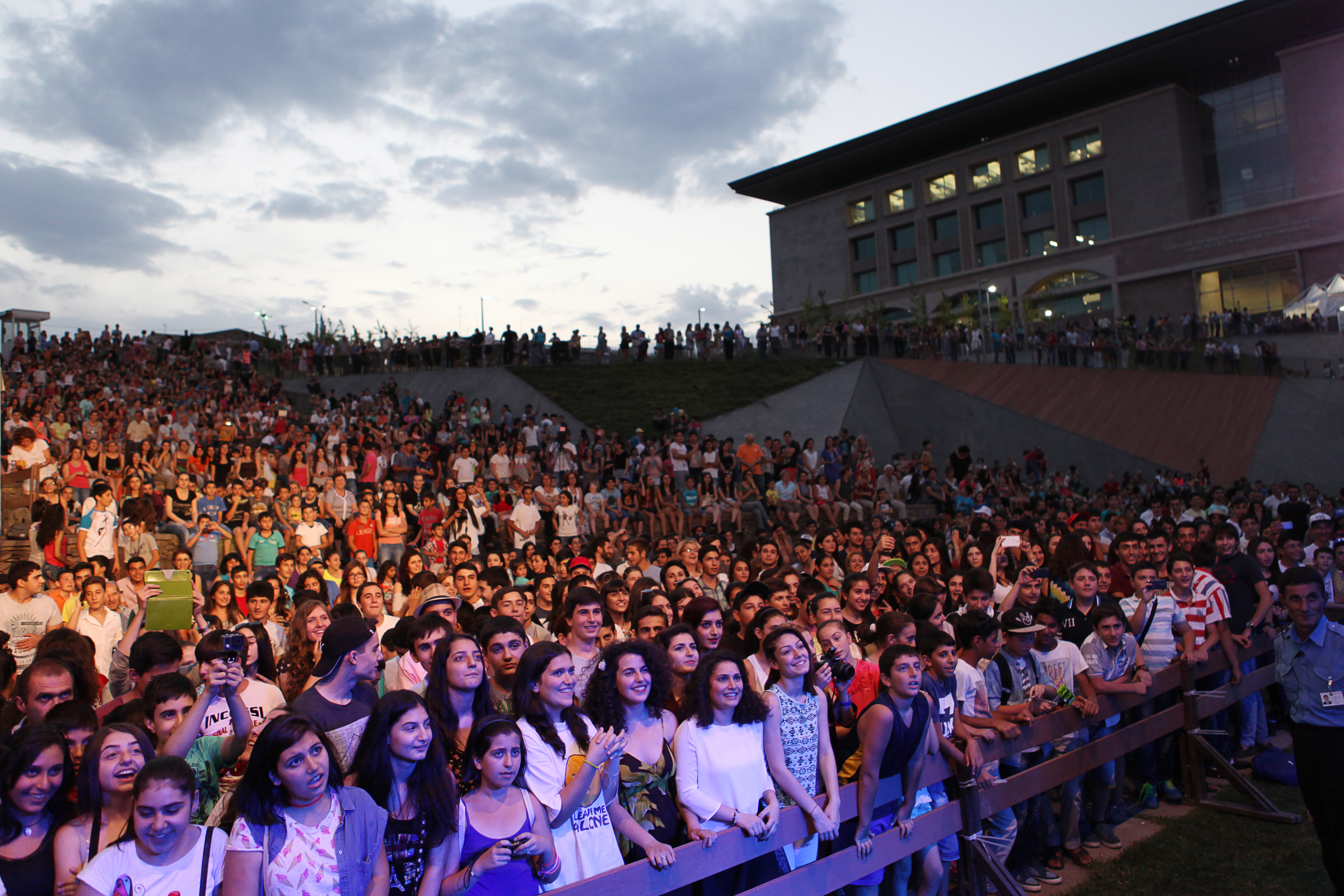 TUMO opening